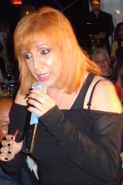 Albita Rodriguez taken 1 Jan 2009 at about 2:30am at "Hoy Como Ayer" on SW 8 ST in Miami, Florida.